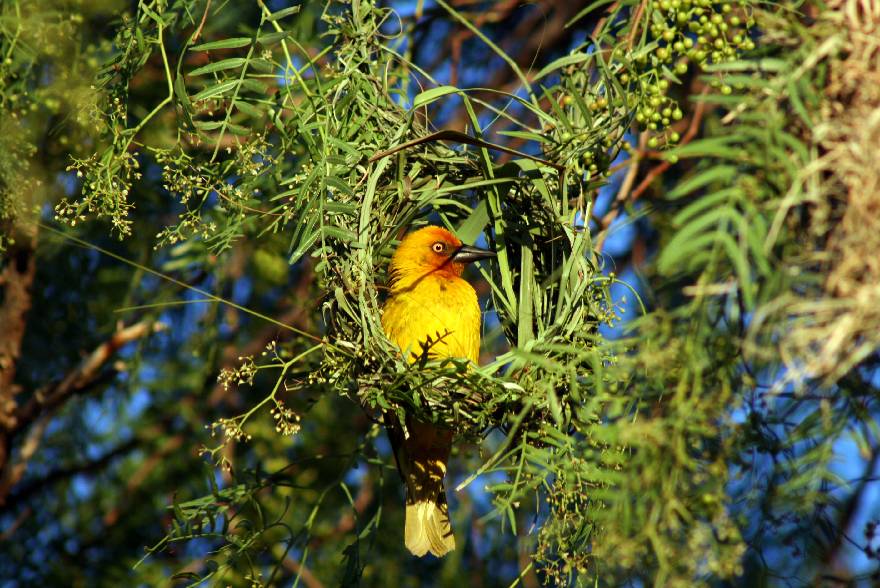 Cape Weaver (Ploceus capensis)